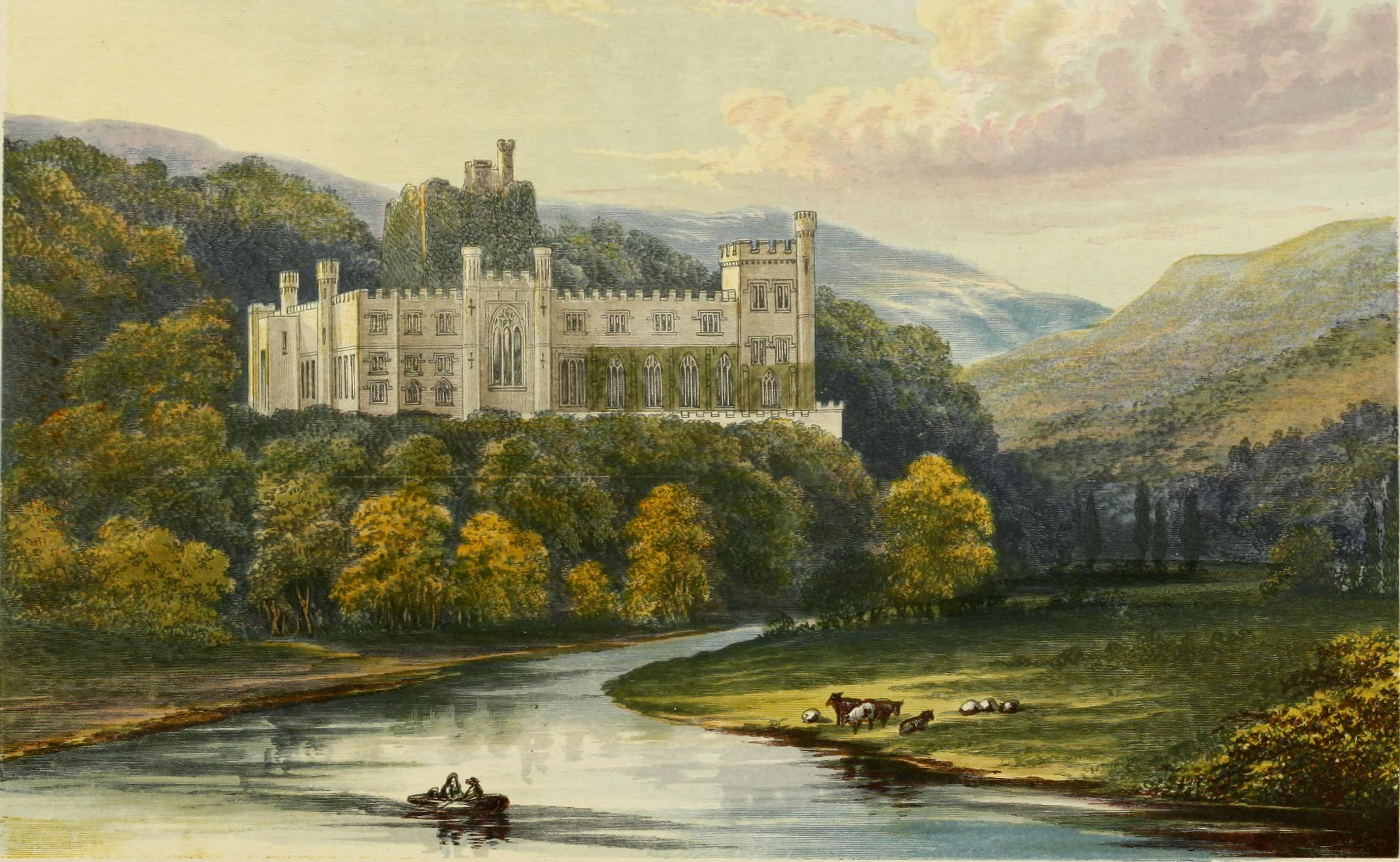 Title: A series of picturesque views of seats of the noblemen and gentlemen of Great Britain and Ireland. With descriptive and historical letterpress Year: 1840 (1840s) Authors: Morris, F. O. (Francis Orpen), 1810-1893 Subjects: Historic buildings Historic buildings Publisher: London (etc.) W. Mackenzie Text Appearing Before Image: ' Text Appearing After Image: Digitized by the Internet Archivein 2011 with funding fromBrigham Young University A Series of PICfDEIipi ¥1111 ®rseriesofpictures04morr